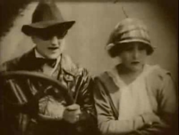 American Aristocracy is a 1916 American silent film directed by Lloyd Ingraham and starring Douglas Fairbanks. This is a scene from the film, produced in 1916, thus public domain.